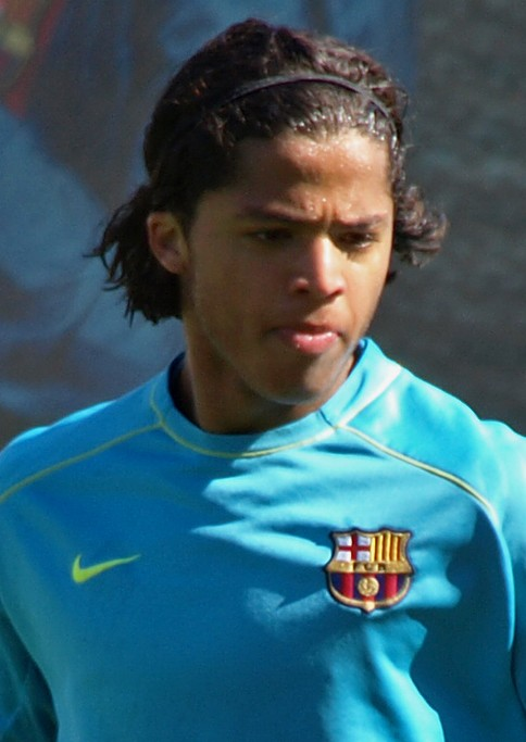 Giovani dos Santos (born May 11, 1989 in Monterrey, Nuevo León, Mexico) is a Mexican attacking midfielder, who can also play forward, who plays for FC Barcelona and the Mexican national team.